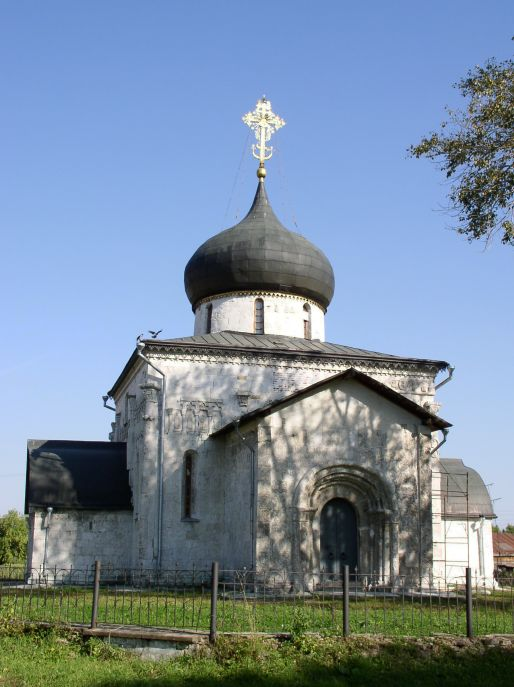 St. George's Cathedral (1230-34) was the last stone church built in Russia before the Mongol invasion.